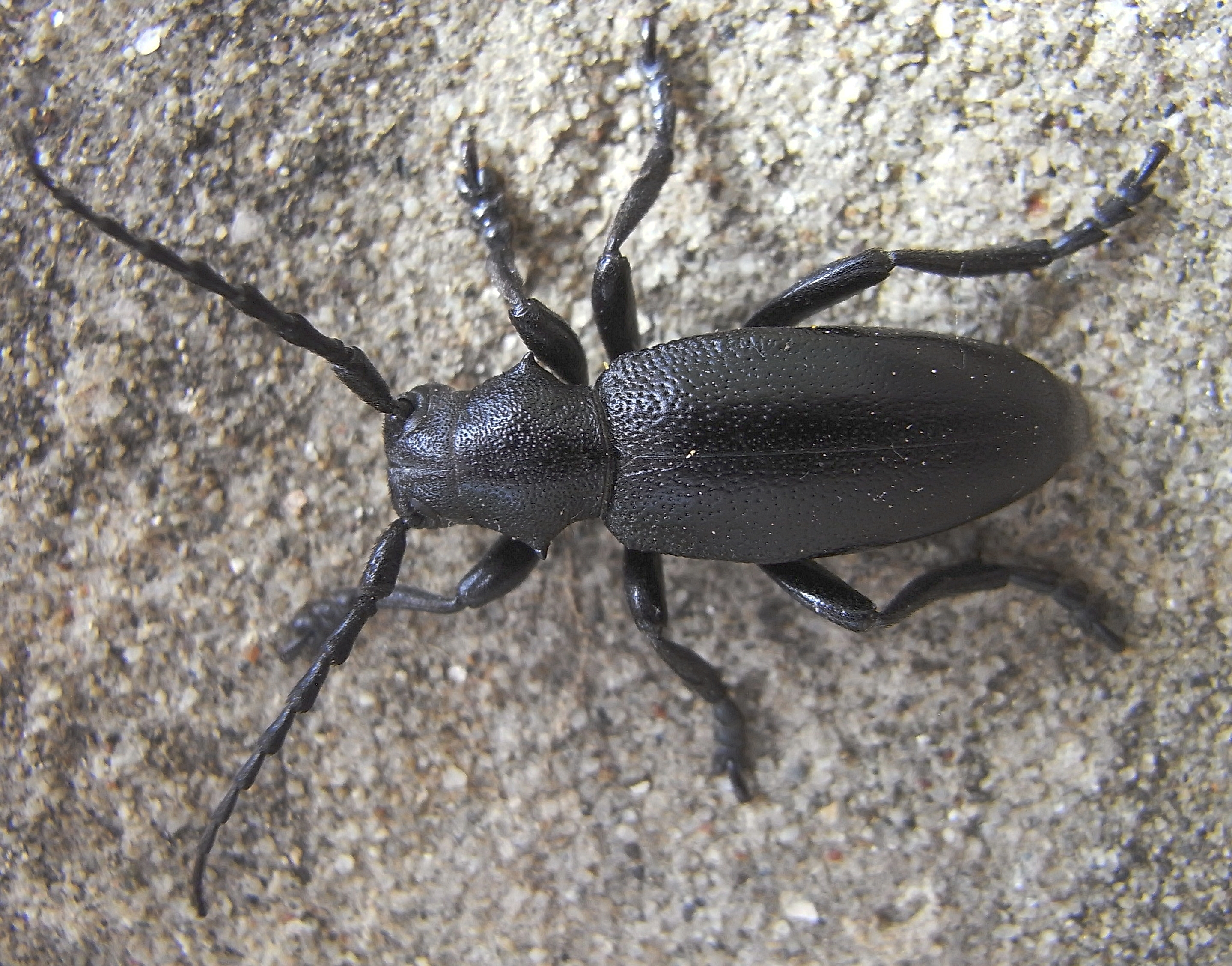 Carinatodorcadion aethiops from Hungary at 2010-05-04 at Villany-mountains Ricoh R8